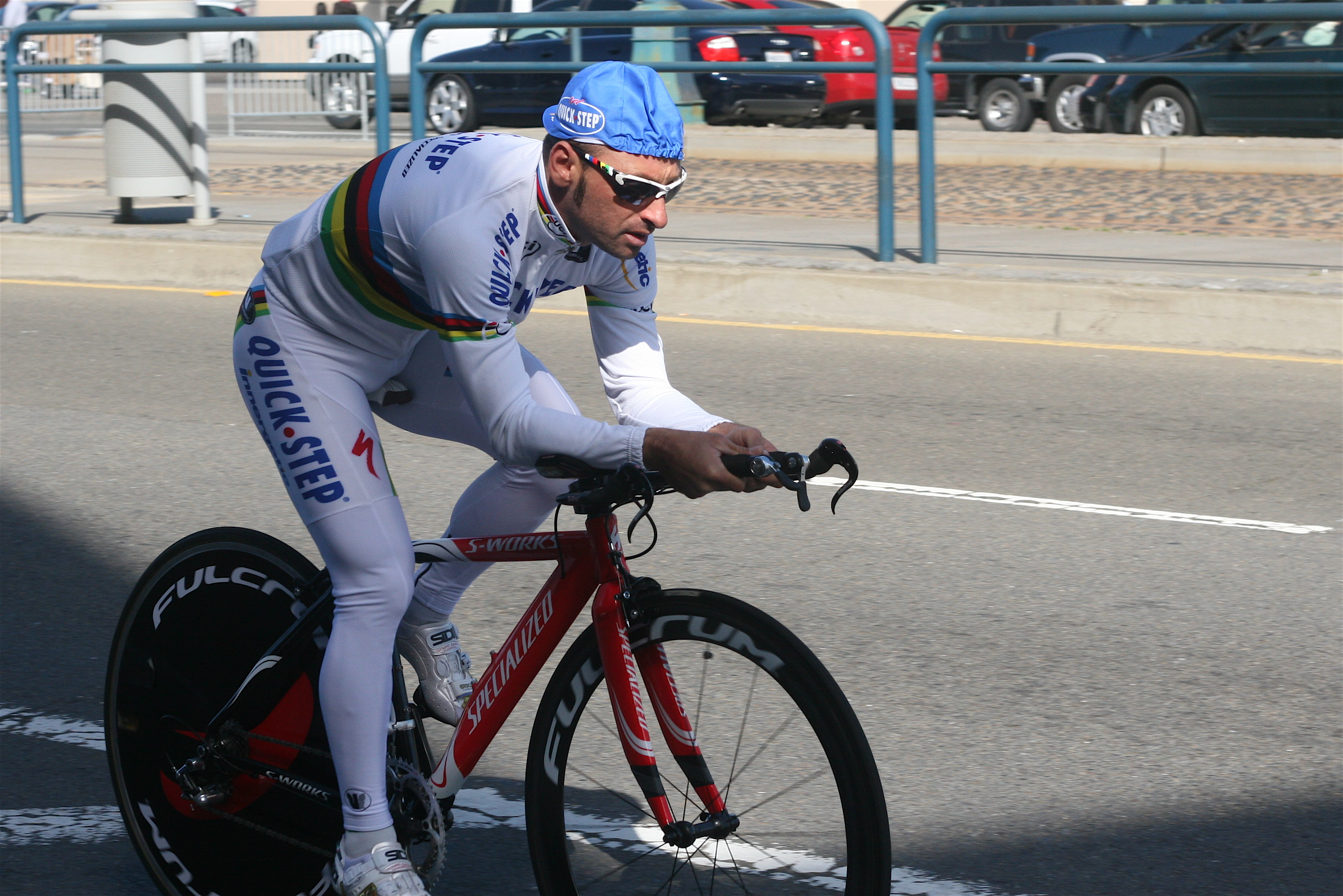 Paolo Bettini (born April 1, 1974) is an Italian road cyclist with the Belgian Quick Step-Innergetic professional cycling team. He is the gold medal winner of the 2004 Athens Olympics road race and of the 2006 World Road Race Championship.